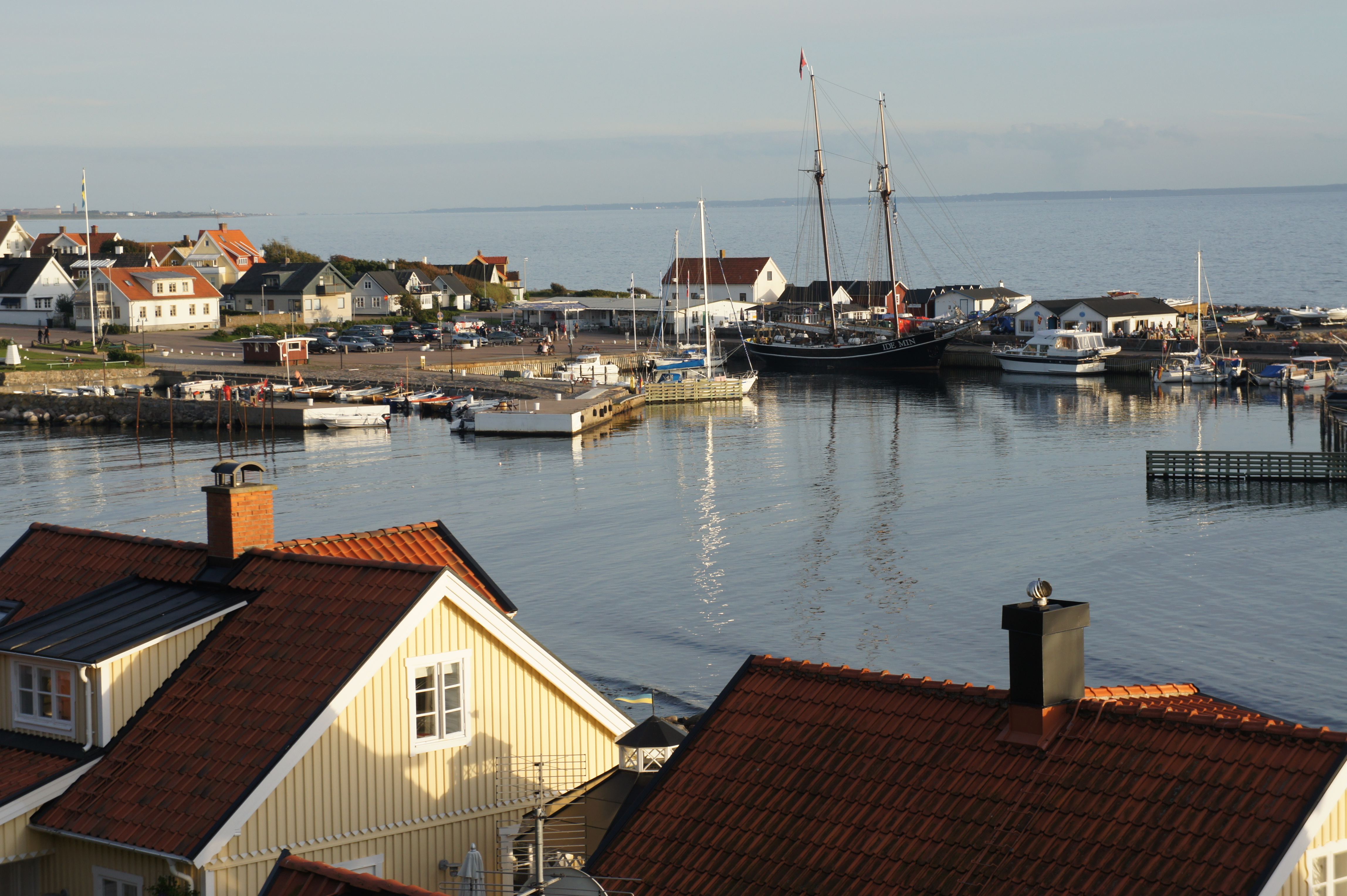 The harbour in Mölle, Sweden. The schooner "IDE MIN".